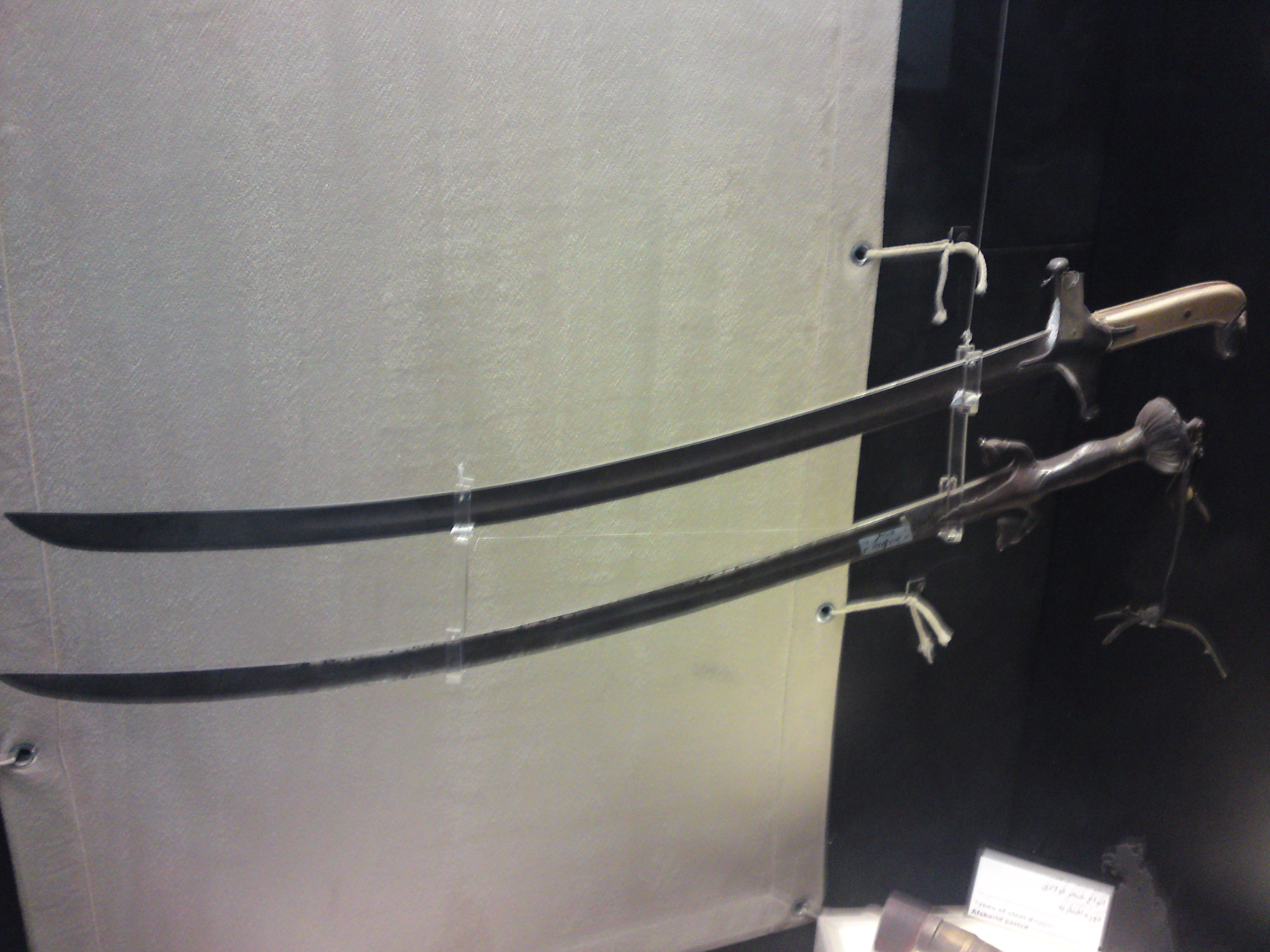 Swords - Afsharid Empire